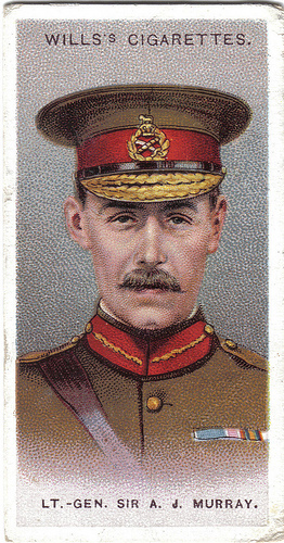 Wills Cigarette card of Gen. Sir Archibald Murray